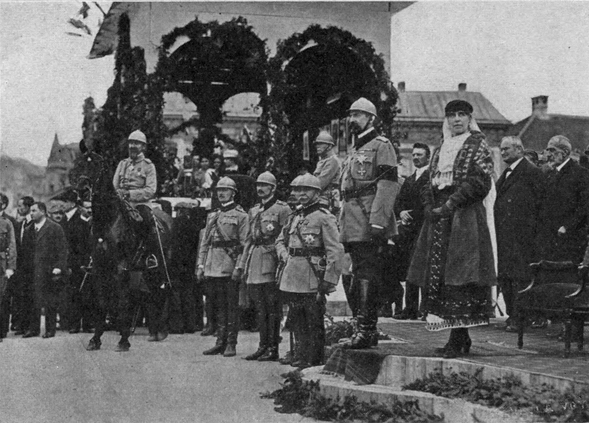 King and queen of Romania, with generals and ministers, in Transylvania